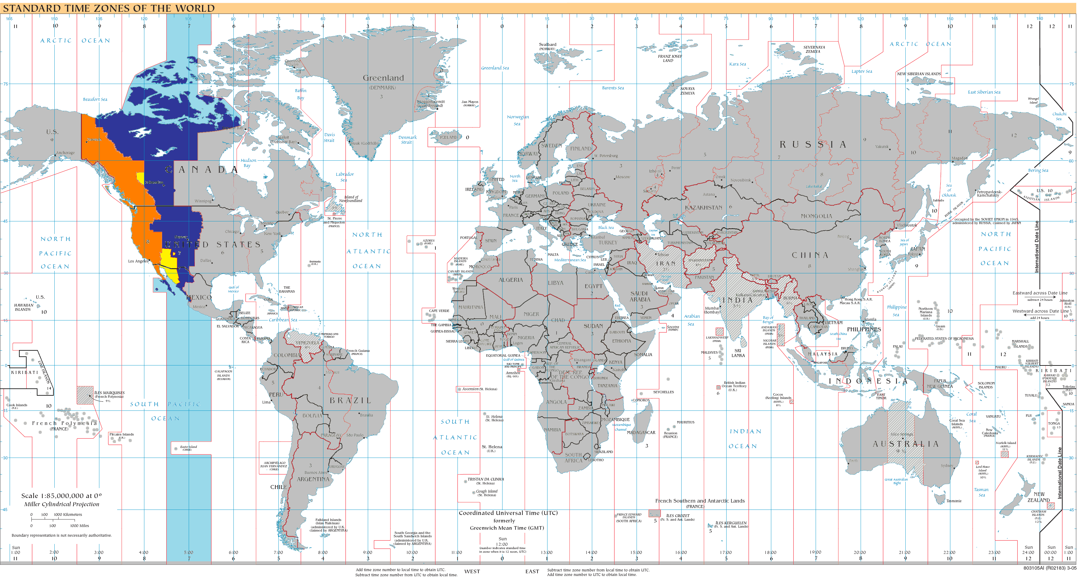 World map of time zones as of 2008, on the Miller Cylindrical Projection and with highlighted UTC-7 zone. Dark Blue - UTC-7 during Northern Winter / Southern Summer Orange - UTC-7 during Northern Summer / Southern Winter Yellow - UTC-7 all year round Light Blue - UTC-7 sea areas